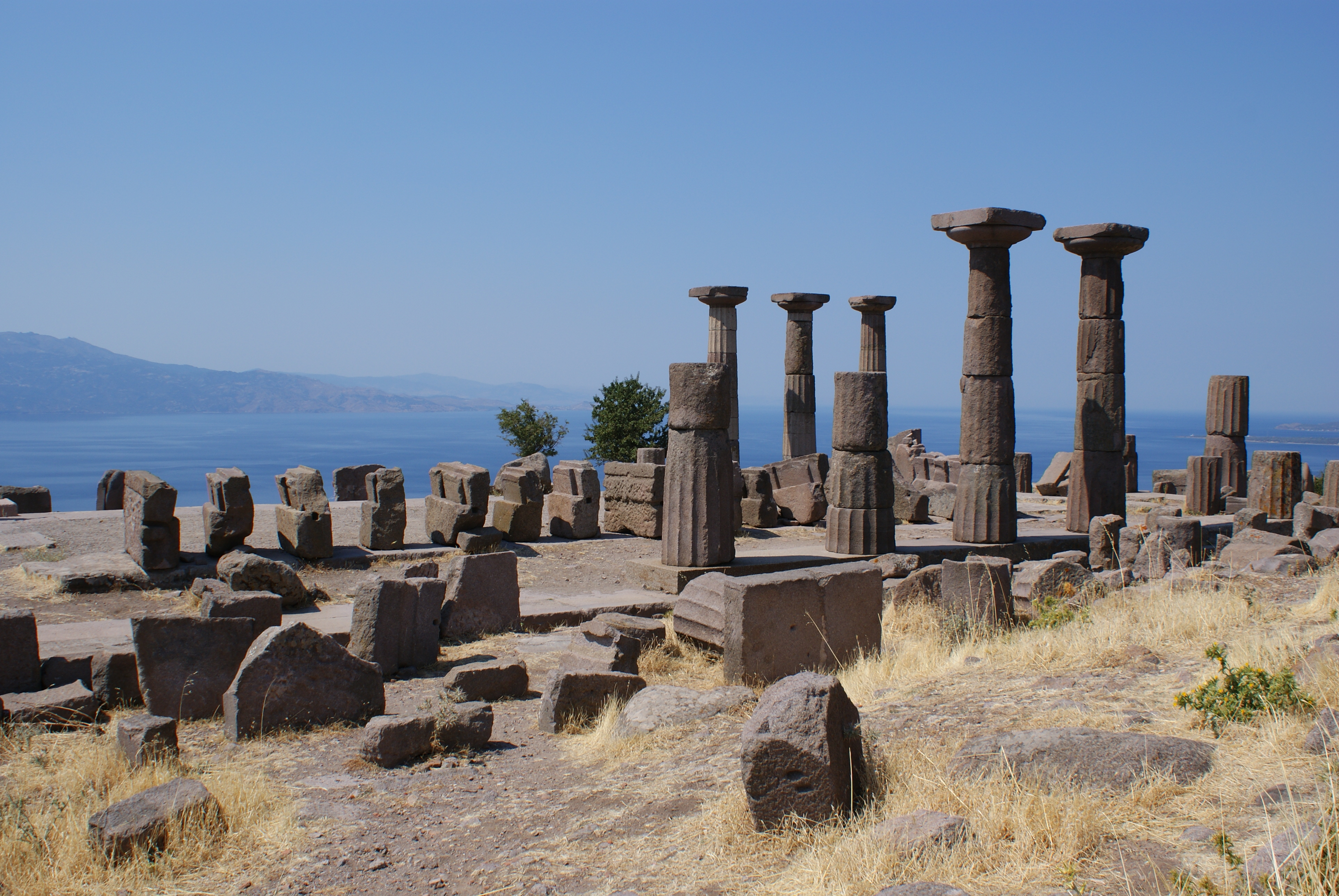 Ruins of the Temple of Athena, Assos, Turkey.